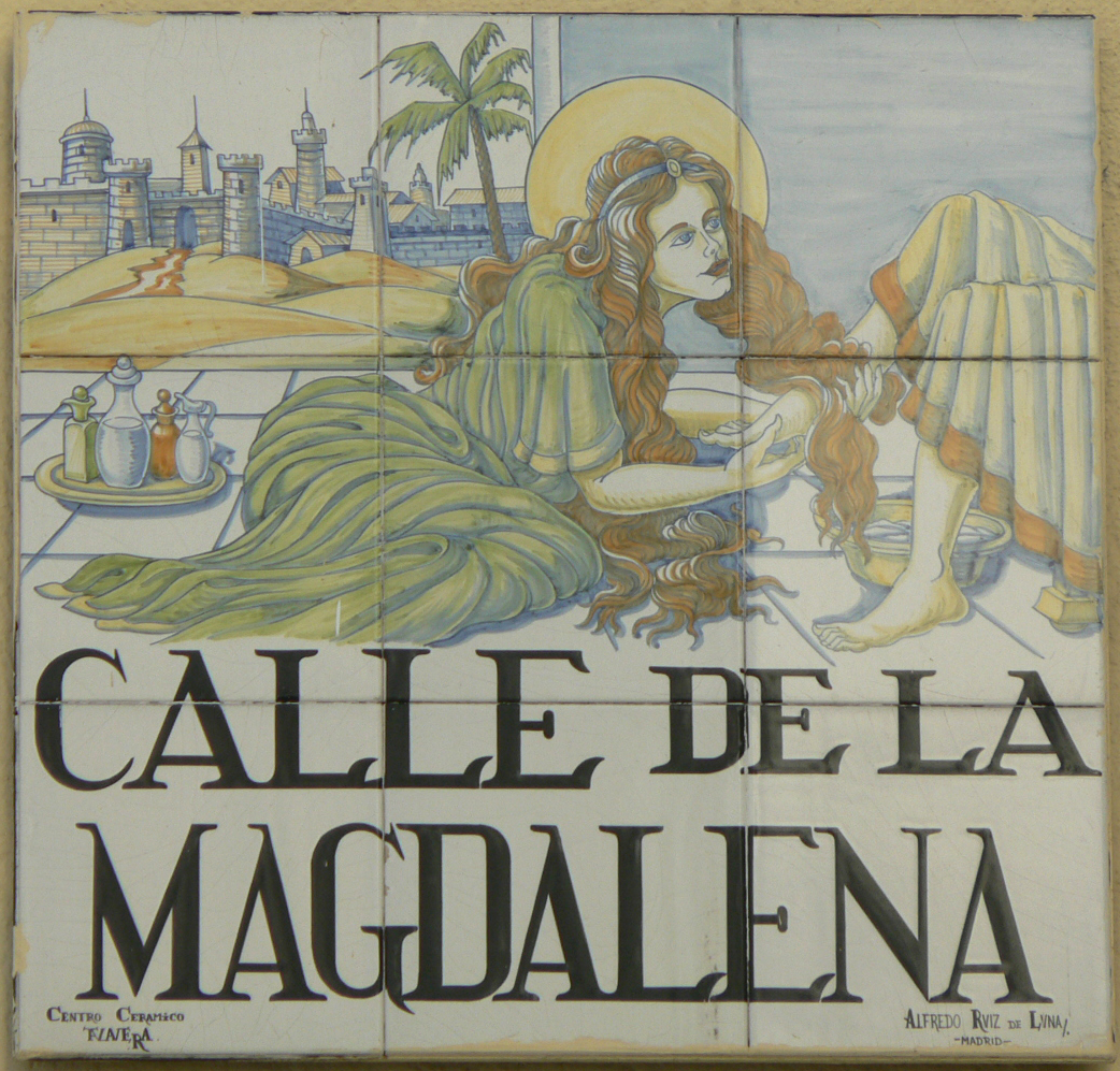 Sign of Calle de la Magdalena (street, Centro district) in Madrid (Spain).